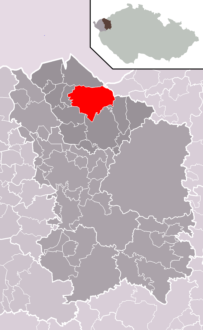 Location of Jáchymov town within Karlovy Vary District and administrative area of Ostrov as a Municipality with Extended Competence.